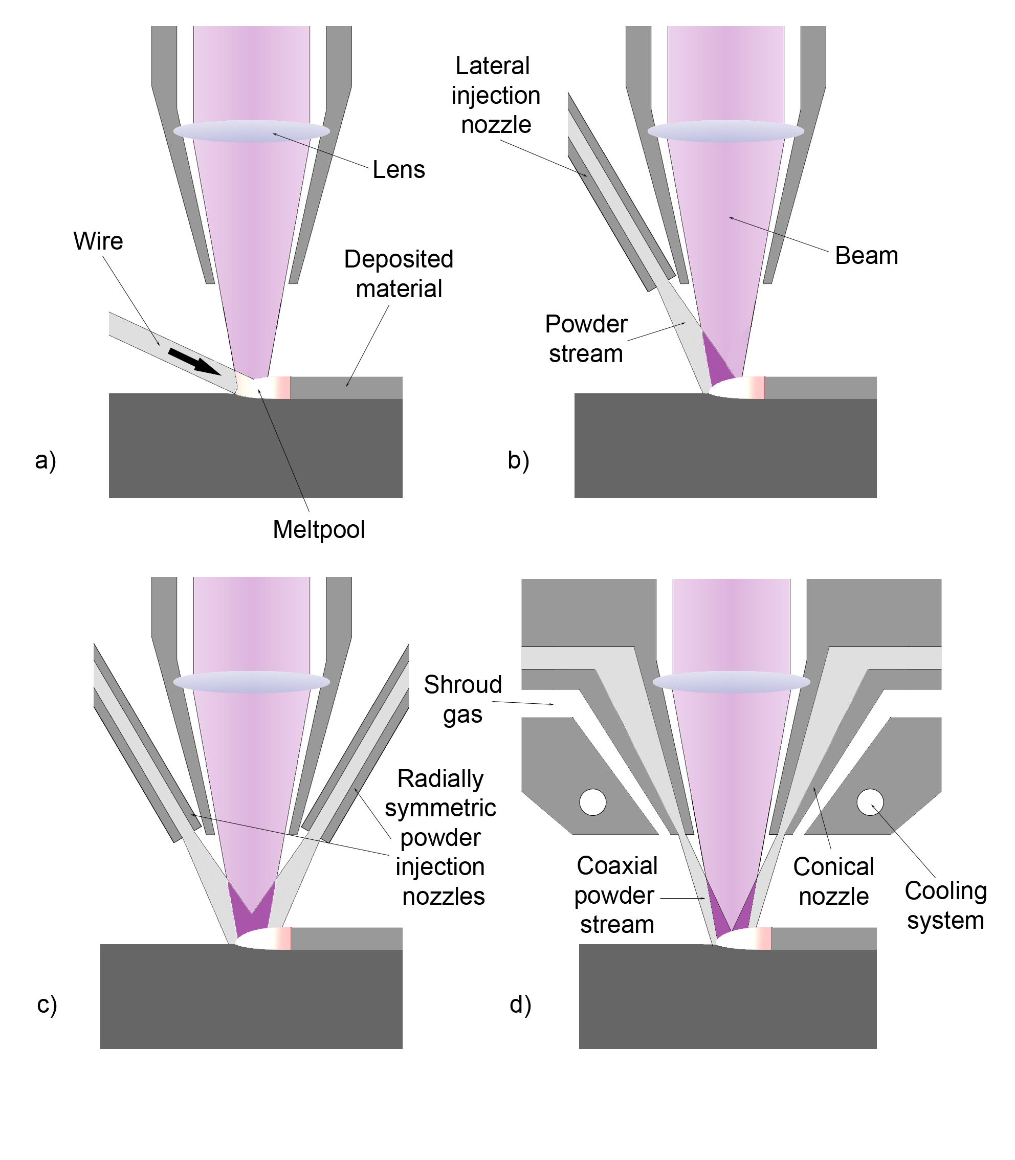 possible configurations of laser cladding nozzles